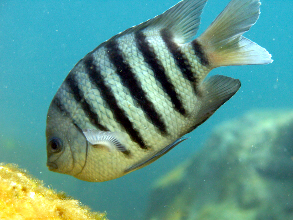 A Narrow-Banded Sergeant Major (Abudefduf bengalensis) picks algae from a rock. Fairy Bower, Manly, NSW